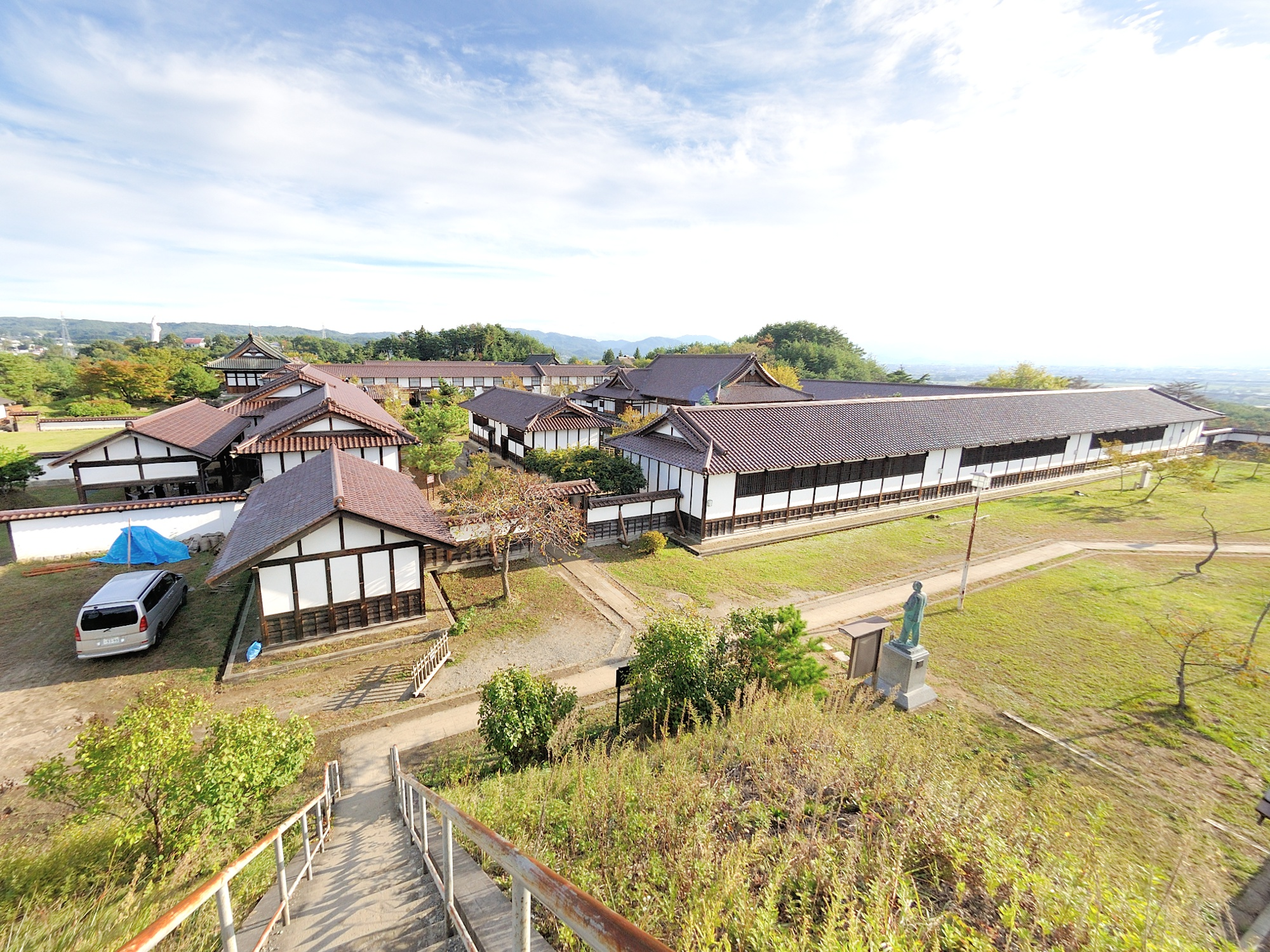 Photograph of Nisshinkan Samurai School exterior. address 10 Takatsukayama, Kawahigashimachiminamikoya, Aizuwakamatsu City, Niigata Prefecture, Japan photo date and time 15:02 October 18, 2013